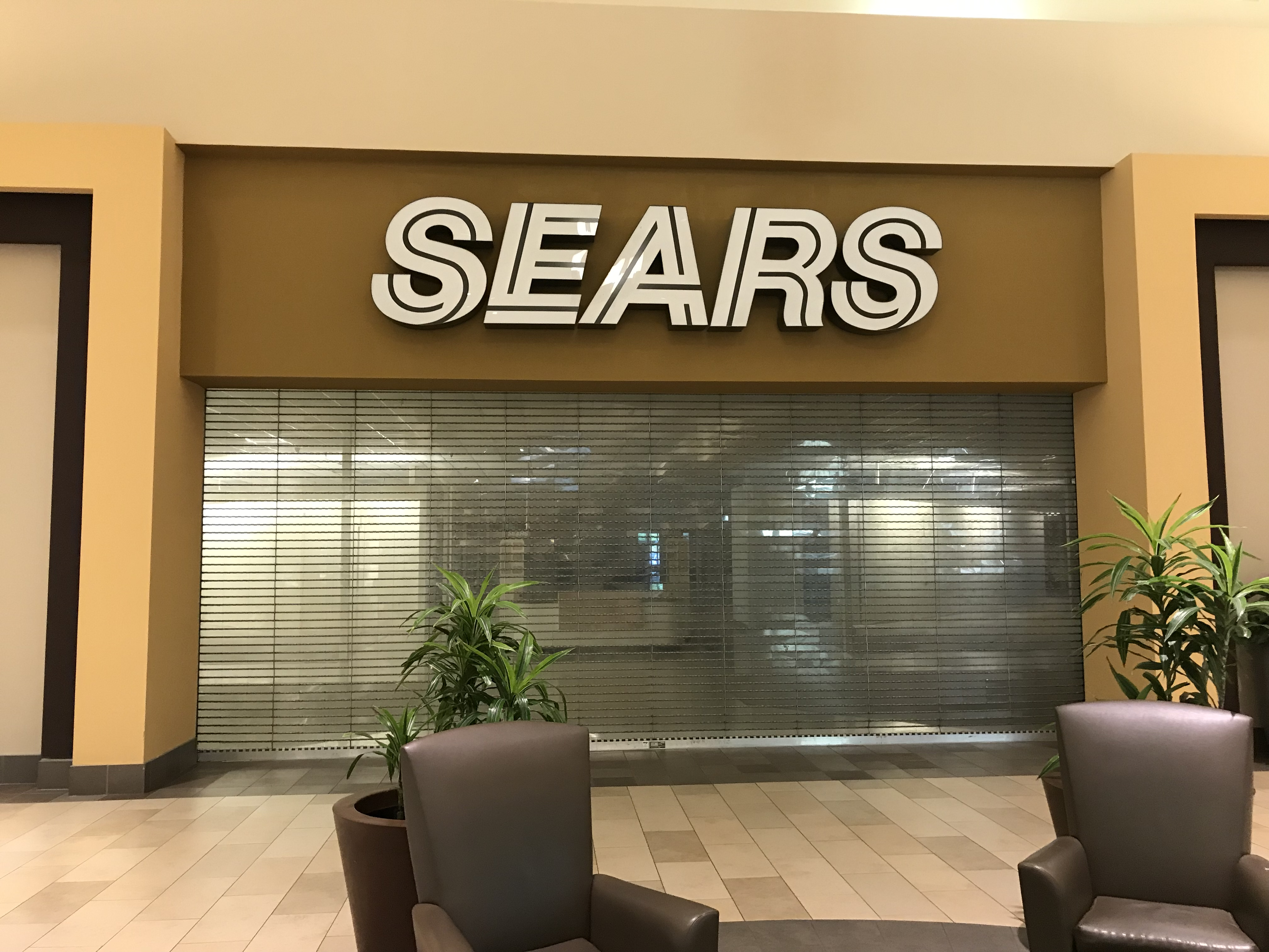 This is a closed Sears at the Stones River Town Centre. This store closed on February 11, 2019.